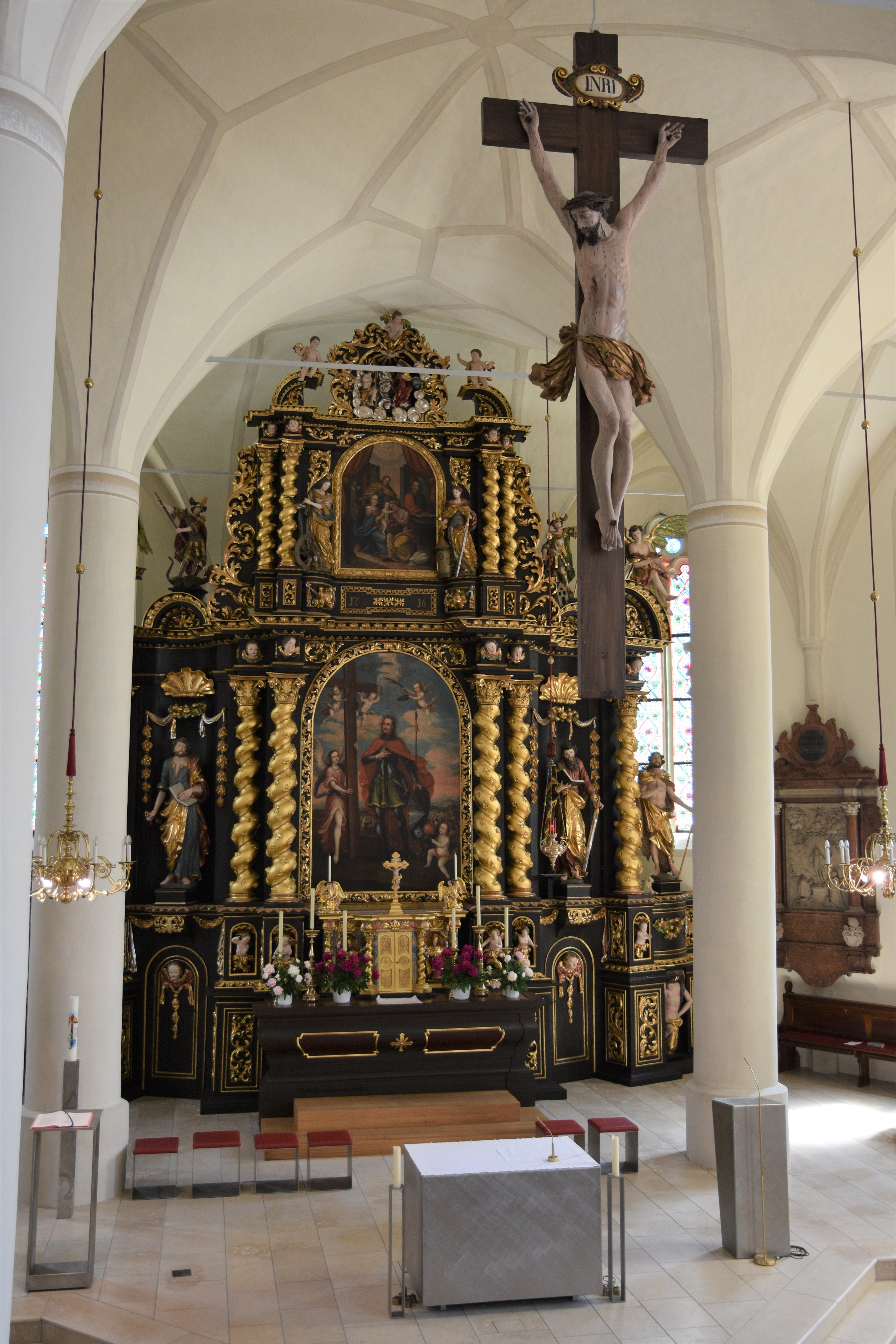 Saint Acacius Church (Schladming) Interior